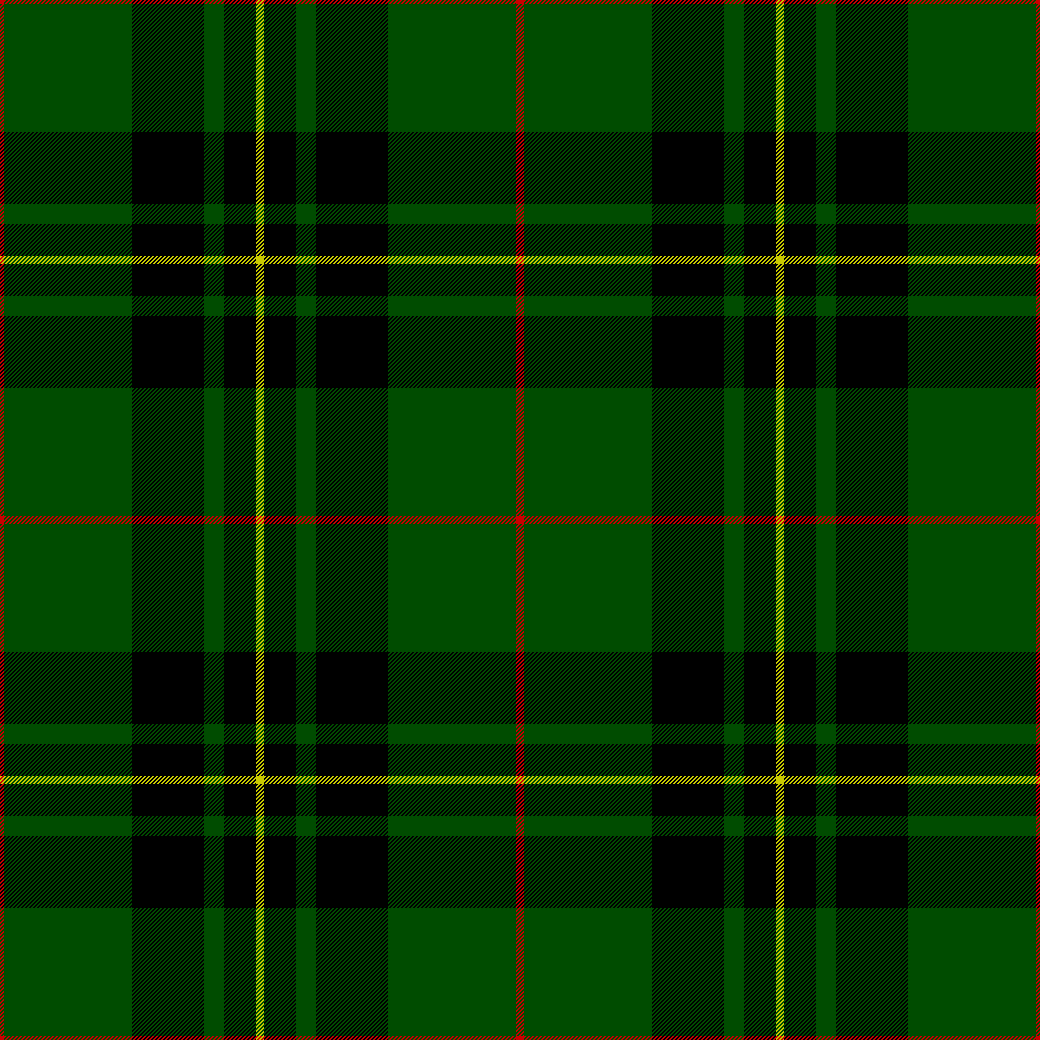 Forbes tartan, as published in the Vestiarium Scoticum. Modern thread count: R4 G64 Bk36 G10 Bk16 Y4.